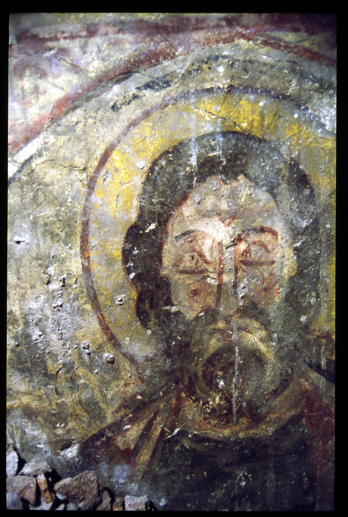 Capella del palau del Temple de Barcelona. Restes de pintura mural, s. XIII, que decoraven els arcs diafragma de l'església, actualment amagades per la volta de creueria.